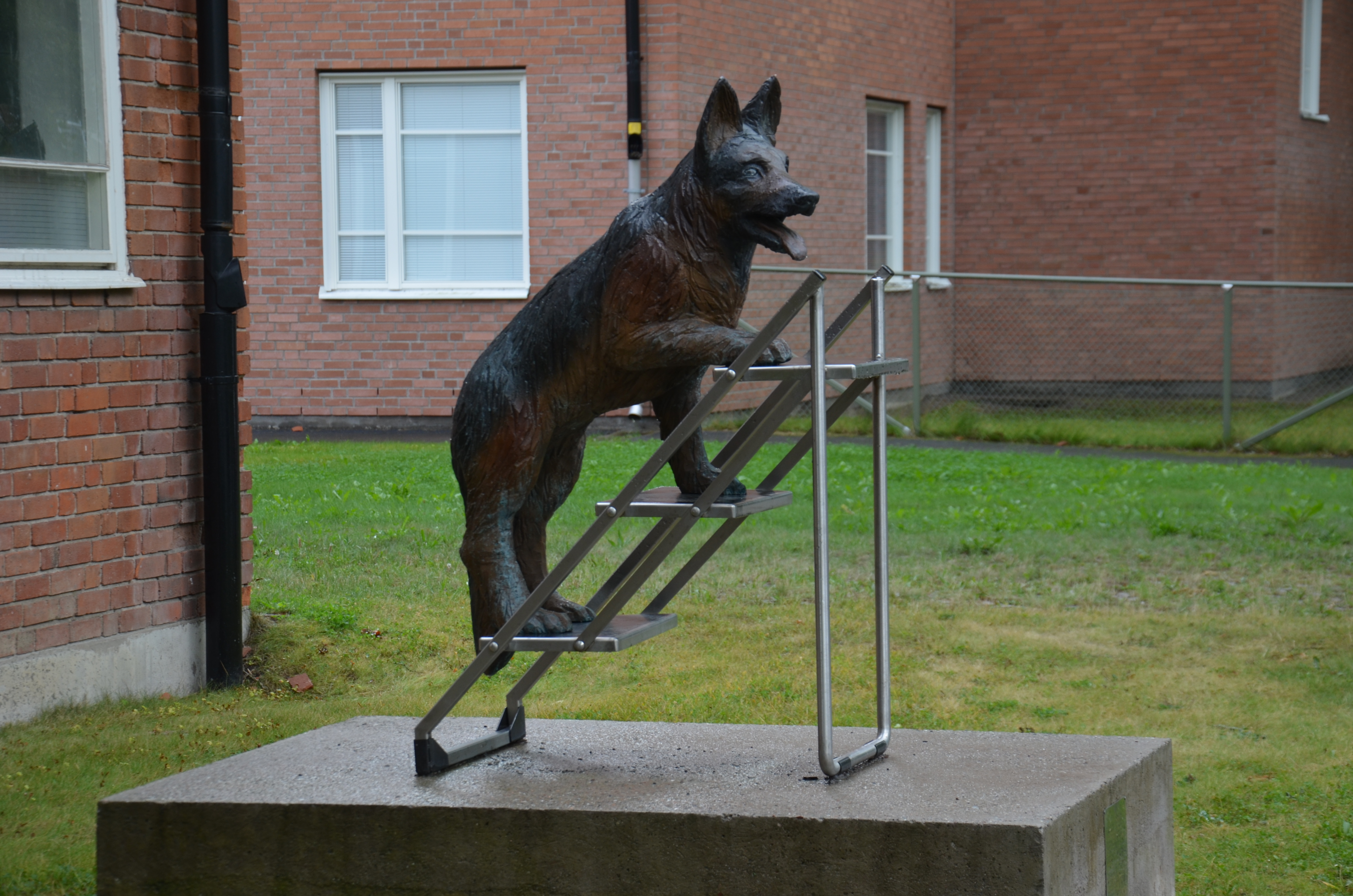 Dog ascending a stepladder av Olav Westphalen, utanför huvudentrén till Södra Ängby skola i Stockholm